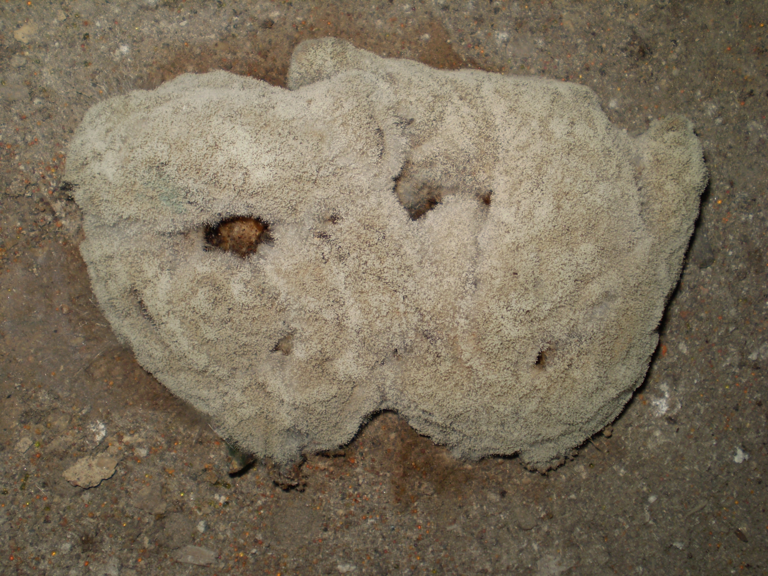 Moulded feces, discovered in Valga, Estonia